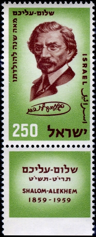 Israeli postage stamp, issued toward 100th anniversary of Sholom Aleichem - 500 mil